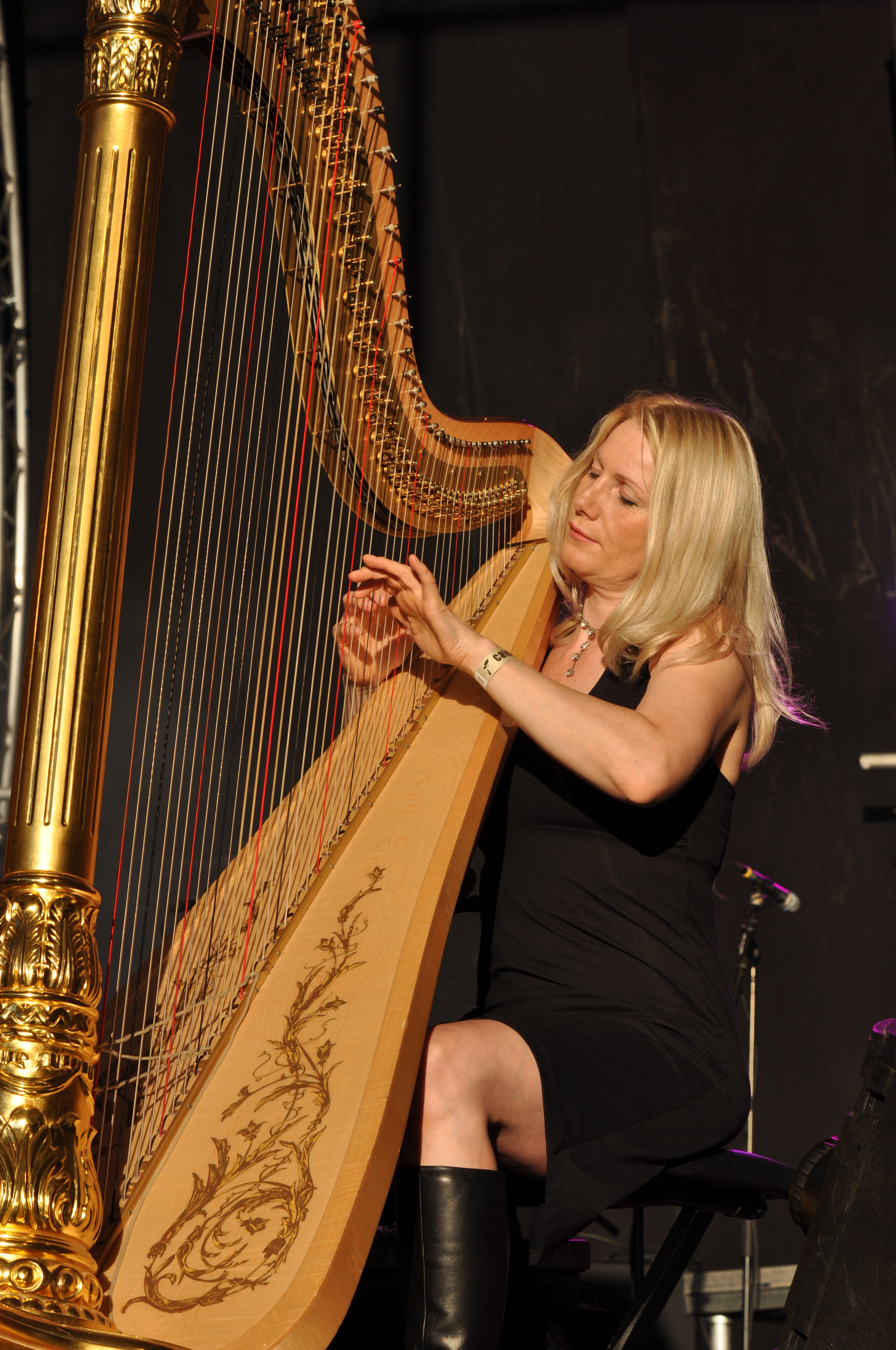 Quadro Nuevo (D), appearance at the 12th World Music Festival "Horizonte" 2014 at the fortress of Ehrenbreitstein, Koblenz (Germany)